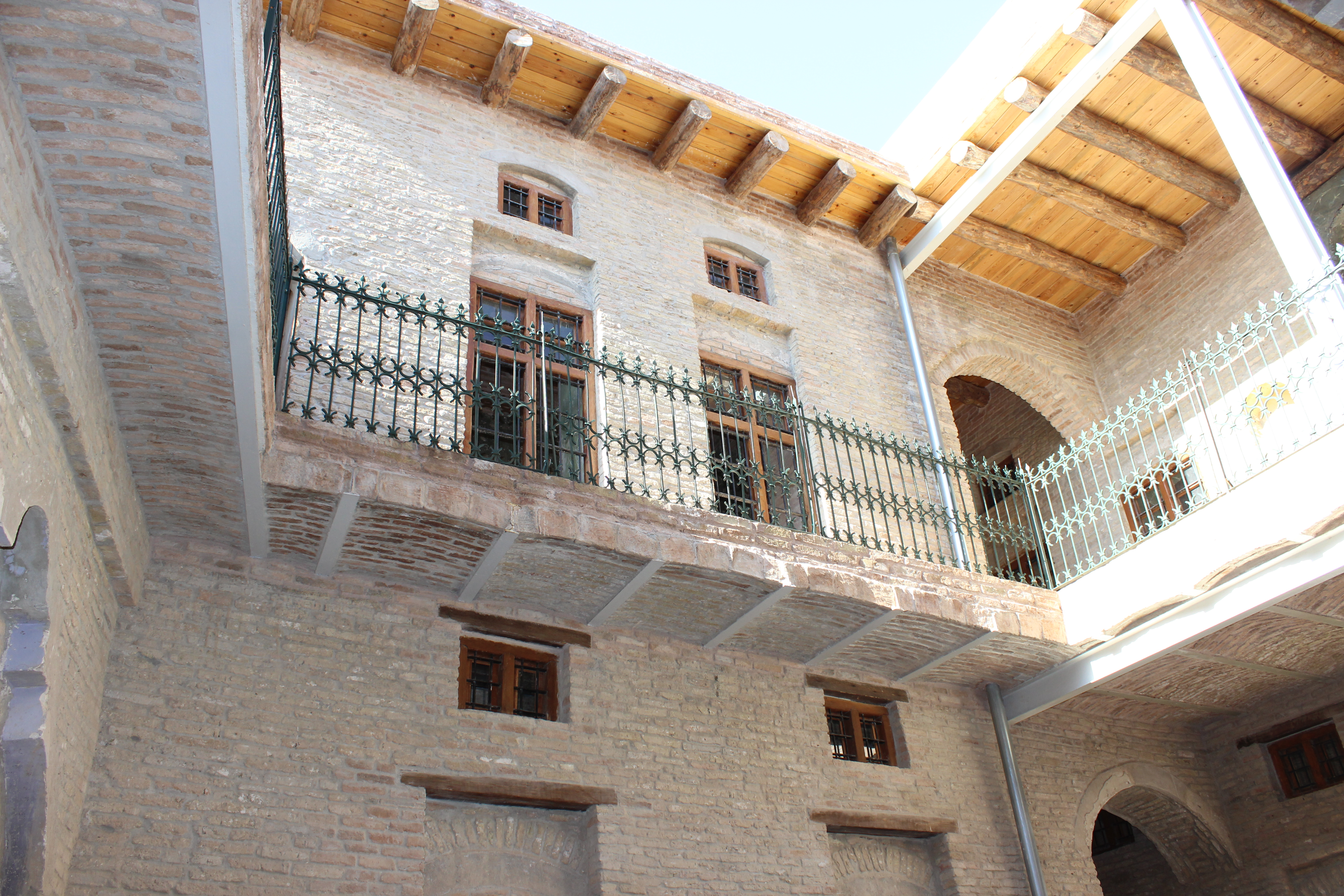 The Interior of one of the traditional houses in Erbil Citadel